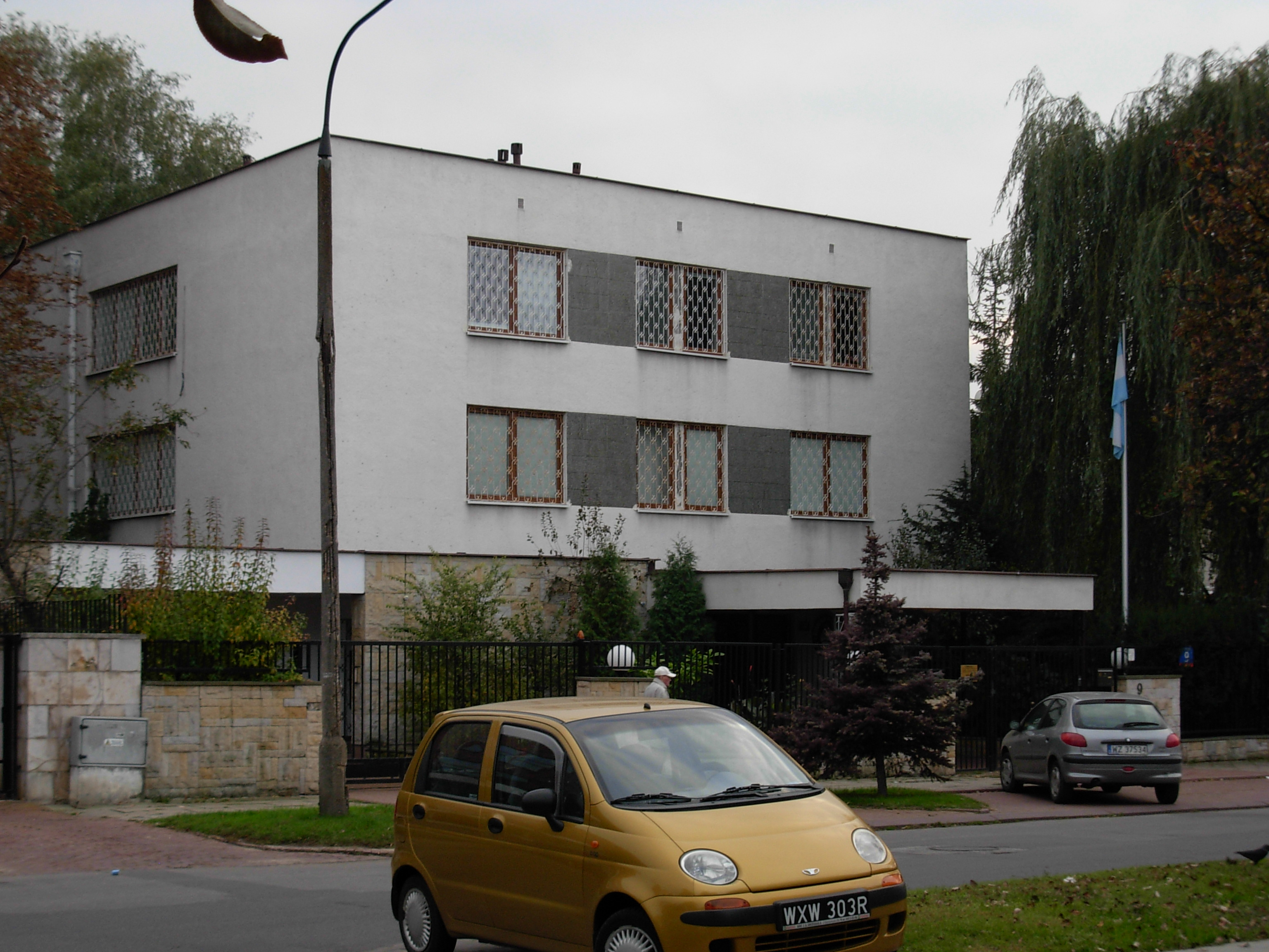 Embassy of Argentina in Warsaw